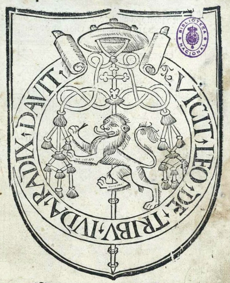 Coat of Arms of Archbishop of Granada , Hernando de Talavera, depicted in work "Arte para ligeramente saber la lengua arauiga Pedro de Alcala" 1505, Biblioteca Nacional de España